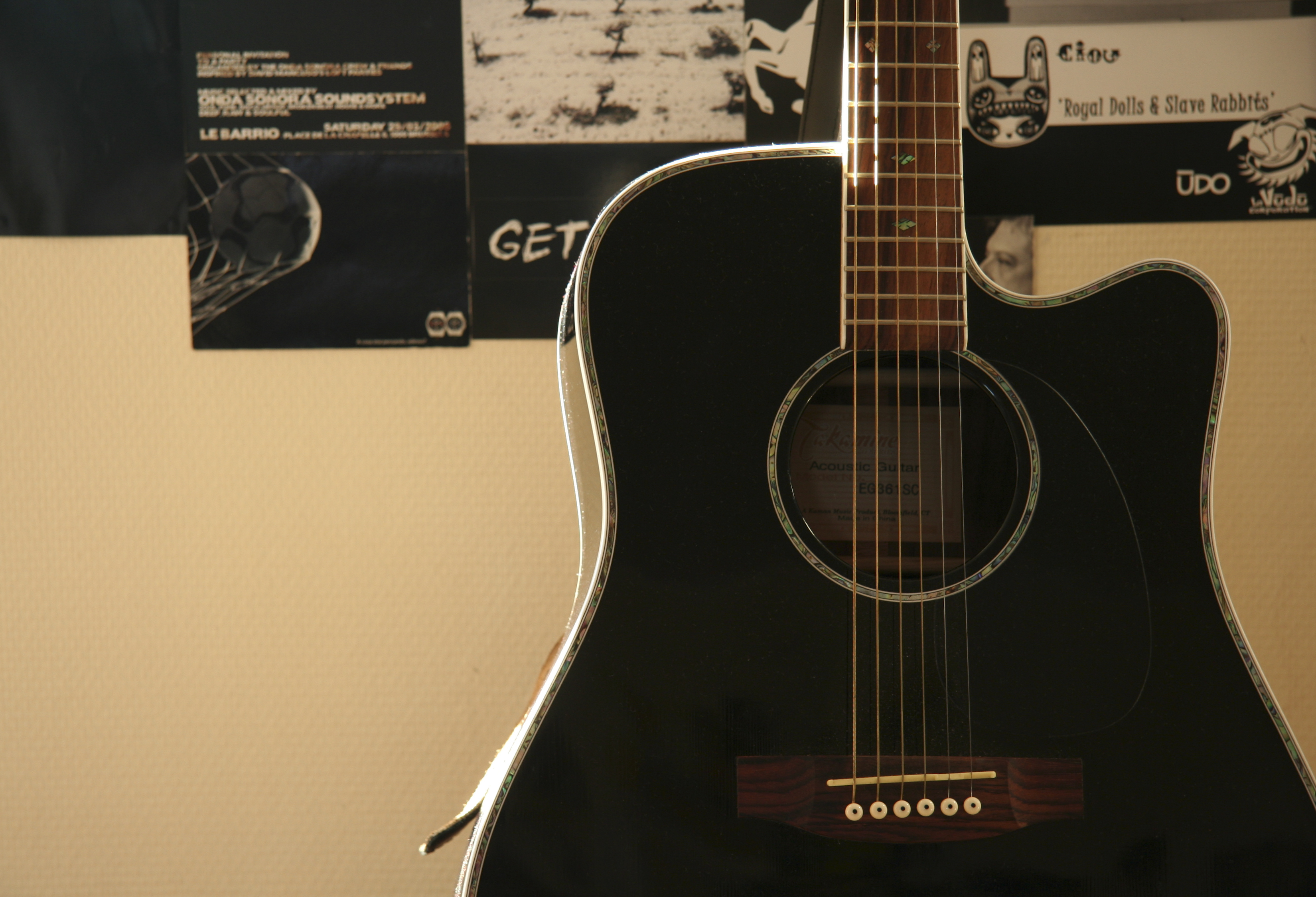 Takamine EG361SC I'm finally leaving tomorrow for the oh so long-awaited summer holidays and today, as I got back home from work for the last day in the next couple of weeks I felt I had to say goodbye to someone.. So I thought I might as well doing it publicly ;)